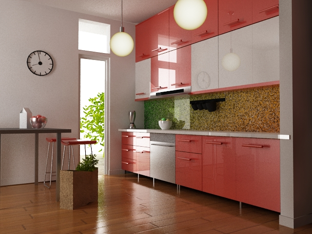 3D interior design of a kitchen